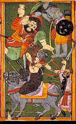 Varahi Fighting Asuras (Recto),Painting; Watercolor, Opaque watercolor and ink on paper, Image: 5 1/8 x 6 3/8 in. (13.01 x 16.19 cm); Sheet: 5 1/8 x 8 1/8 in. (13.01 x 20.63 cm)